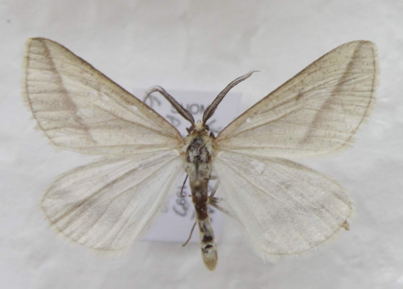 Aspitates gilvaria collected from the Kurjenrahka National Park, Finland.